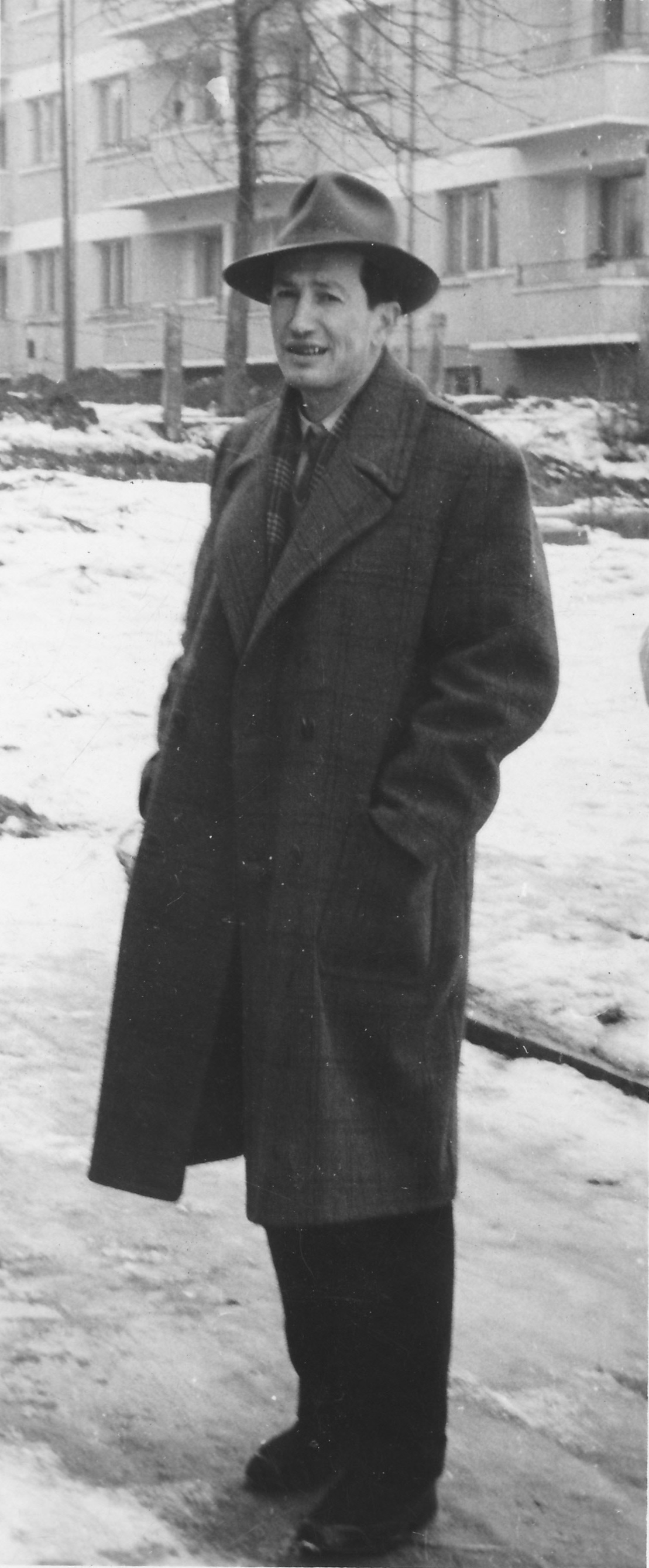 Румен Цанев през 1961 г. София